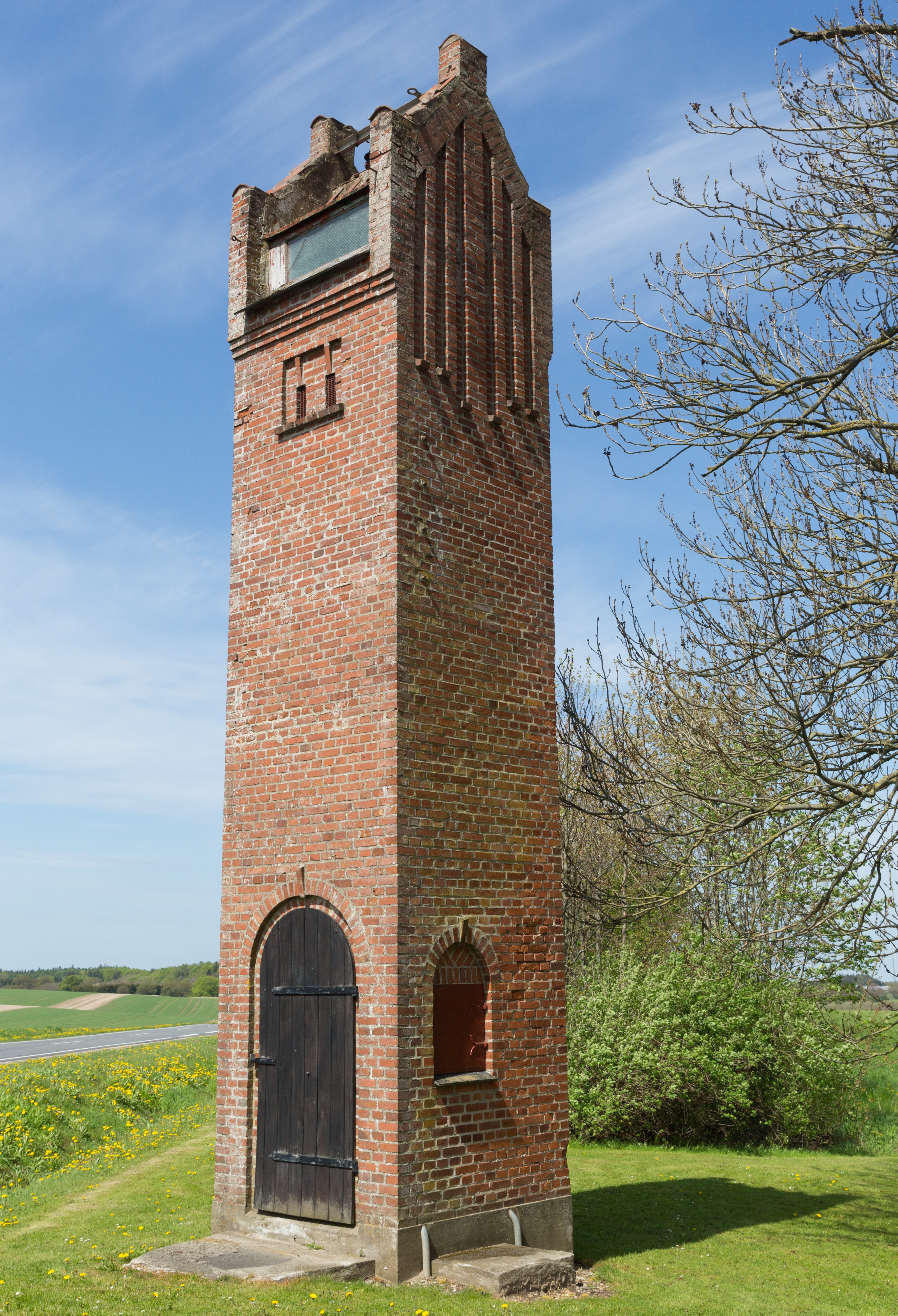 Distribution substation at Urup